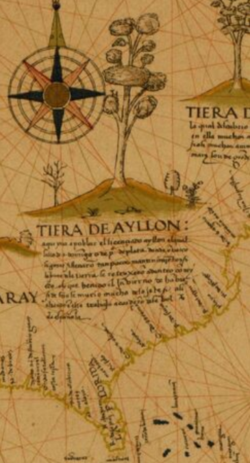 Detail of Ribero map showing land on the southeast coast of North America granted to Lucas Vázquez de Ayllón in 1523 by Spanish king, Charles V.